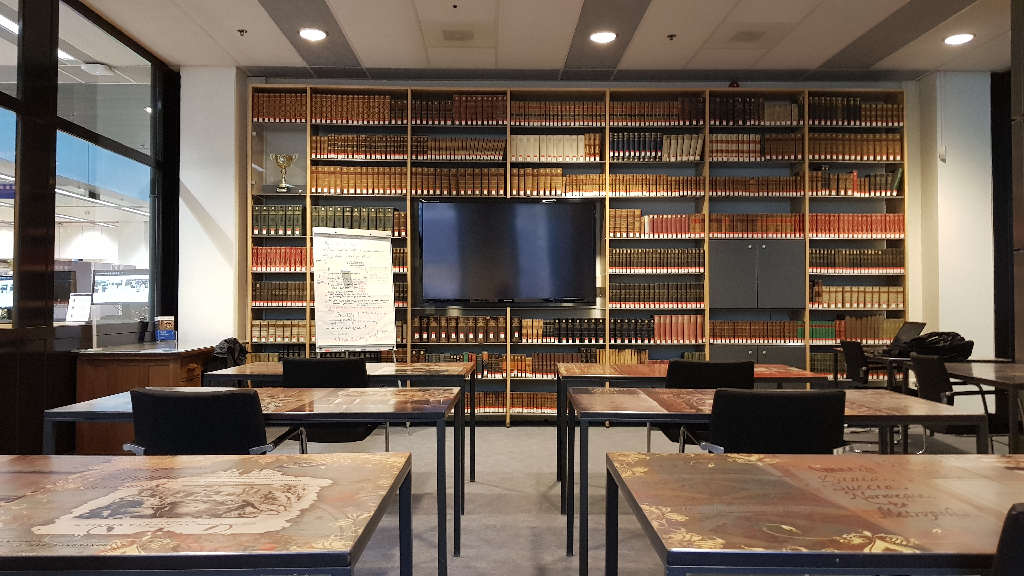 The Parlour, Maastricht University, Netherlands